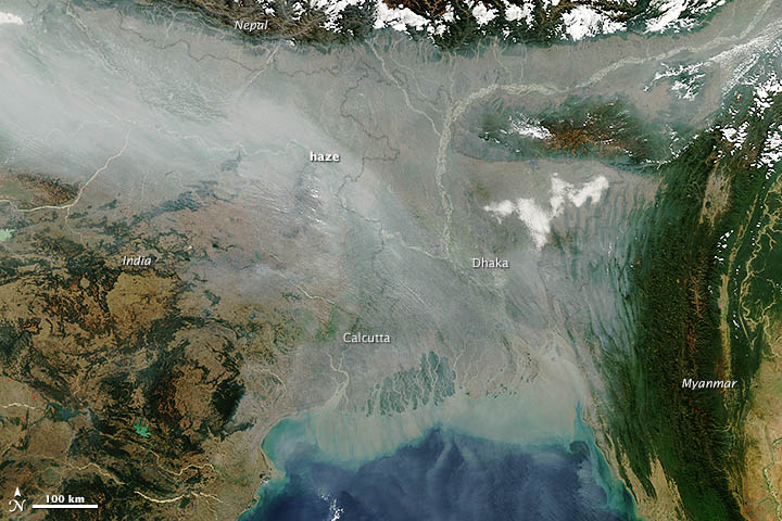 As is often the case in the winter, a thick river of haze hovered over the Indo-Gangetic Plain in January 2013, casting a gray pall over northern India and Bangladesh. On January 10, the Moderate Resolution Imaging Spectroradiometer (MODIS) on NASA’s Aqua satellite captured this image of haze hugging the Himalayas and spilling out into the Ganges delta and Bengal Sea. The haze likely resulted from a combination of urban and industrial pollution, agricultural fires, and a regional meteorological phenomenon known as a temperature inversion. Usually the air higher in the atmosphere is cooler than the air near the surface, a situation that allows warm air to rise and disperse pollutants. However, cold air often settles over northern India in the winter, trapping warmer air—and pollution—close to the surface, where it has the greatest impact on human health.